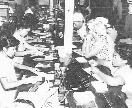 Currency Switch from B-Yen to US-Dollars